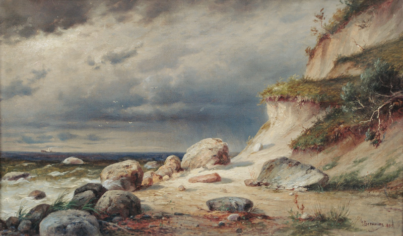 The beach of Göhren on Rugia